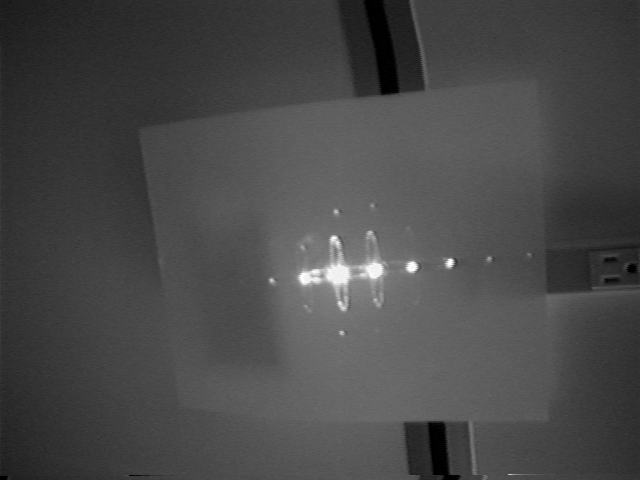 This is a picture of the diffraction patter of a He-Ne laser after traveling through an acousto-optic deflector (AOD) made from TeO2 crystal. The AOD was designed for 1064 nm wavelength laser, so the He-Ne was not the appropriate wavelength, but I think these similar patterns were visible with the IR laser (1064 nm), though to a lesser extent. I used the He-Ne to make it visible with naked eye. At the time in 1999, I did not have a digital camera, so this picture is a digitized image from an analog video camera. That's why it's crappy. I didn't crop it so that the electrical outlet is visible to lend some scale. This image also available on FigShare.[1]